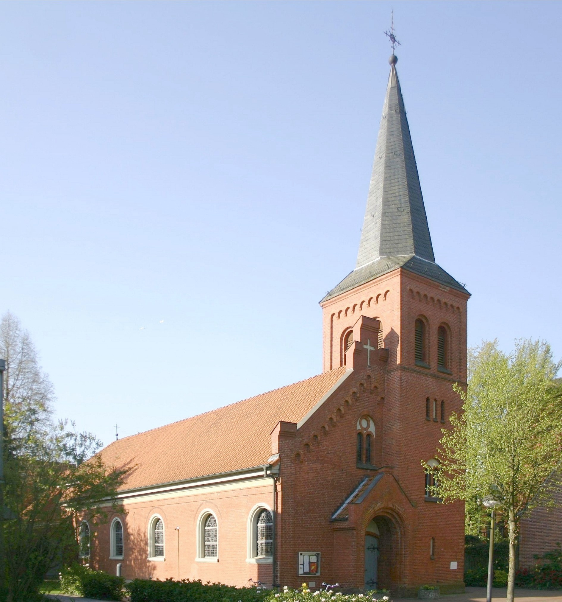 Historic (catholic) church in Aurich, East Frisia, Germany